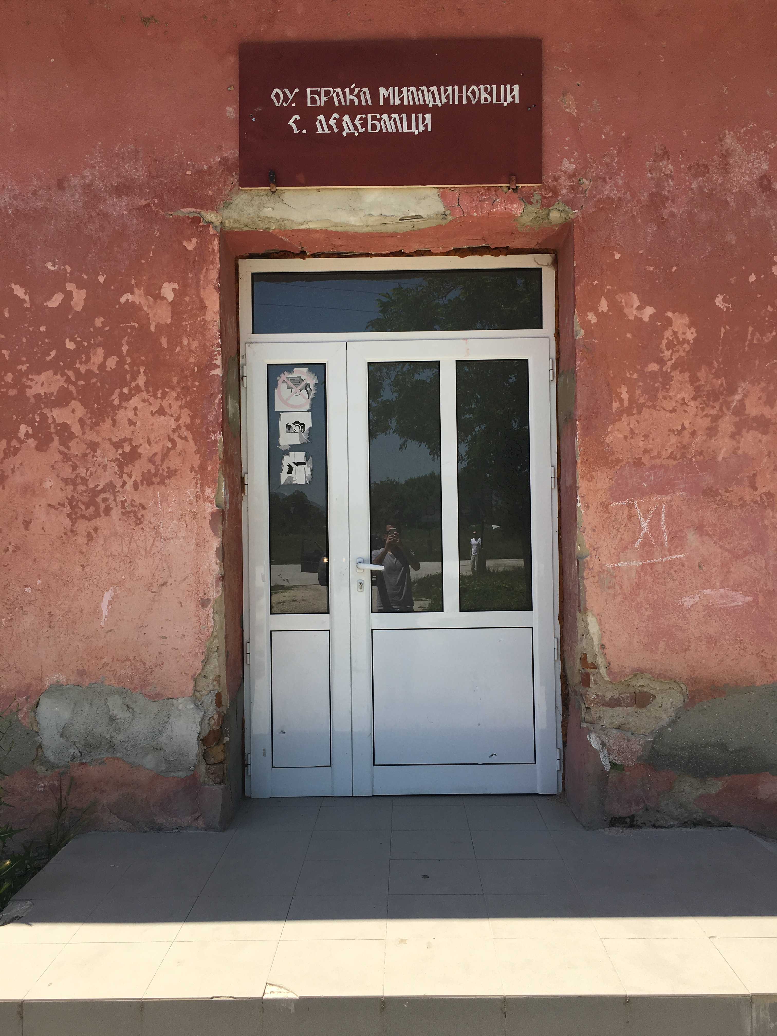 The entrance of Miladinov Brothers Primary School in the village of Dedebalci